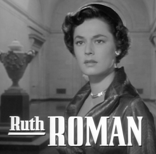 Cropped screenshot of Ruth Roman from the trailer for the film Strangers on a Train.